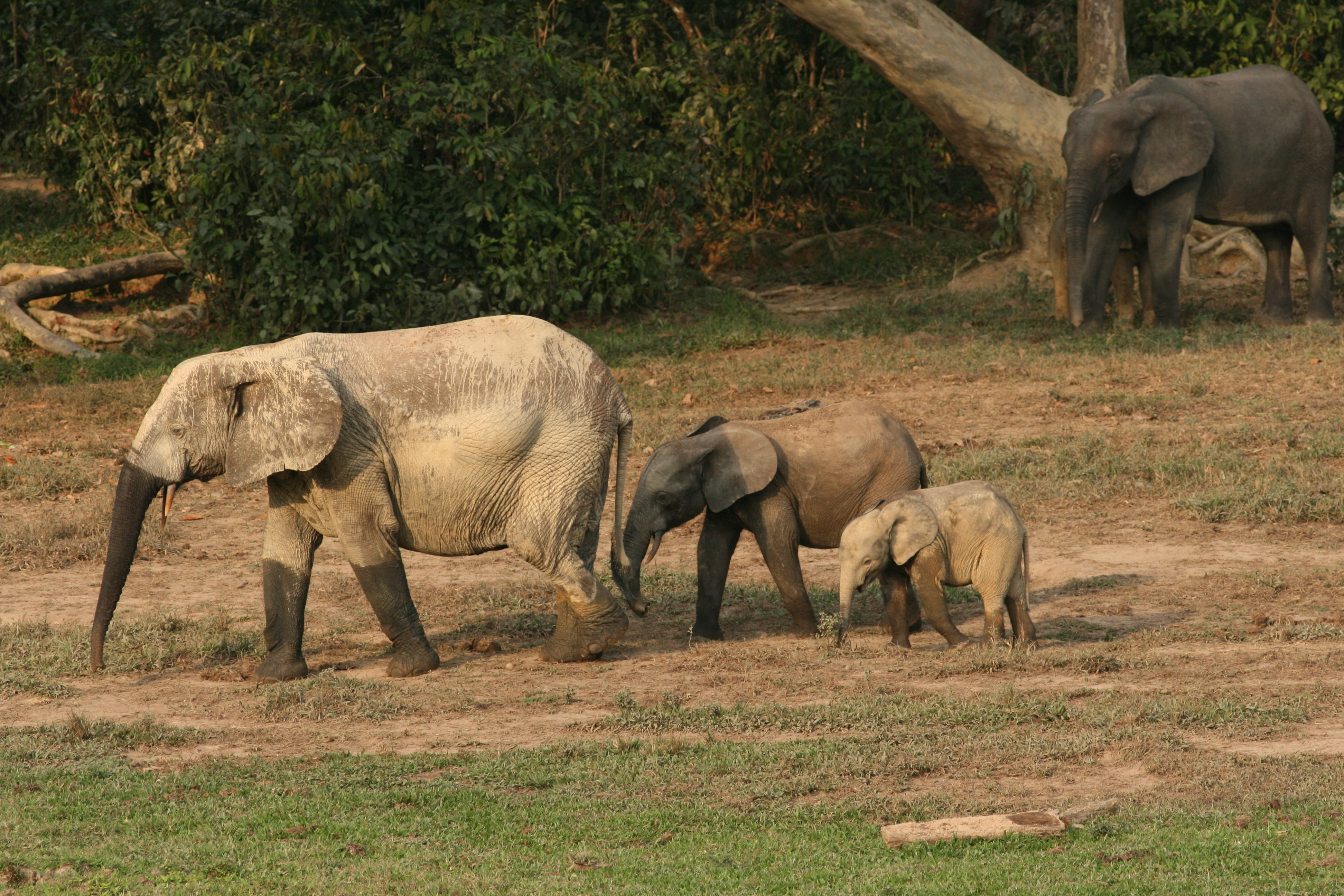 Elephants can be individually recognized by their ear shape and patterns. Credit: Richard Ruggiero/USFWS